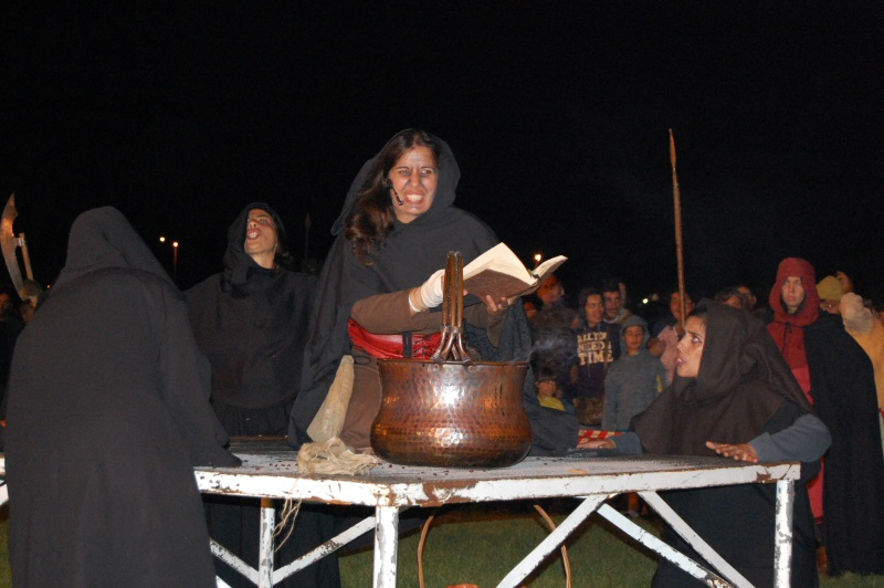 Representation of the scene of "The Queimada" in Sacavem Medieval Fair, September 2009. The witch at the top of the platform was preparing a punch made from Galician aguardiente - a spirit distilled from wine and flavoured with special herbs or coffee, plus sugar, lemon peel, coffee beans and cinnamon that is called "The Queimada". While preparing the punch the witch recited a spell or incantation, so that special powers are conferred to the queimada and those drinking it. Then the queimada is set alight, and slowly burns as more brandy is added.